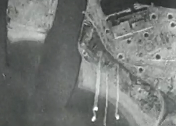 Still from a World War 2 movie produced by the US Army Pictorial Service. Showing Disney bombs being dropped on a target in the Netherlands.